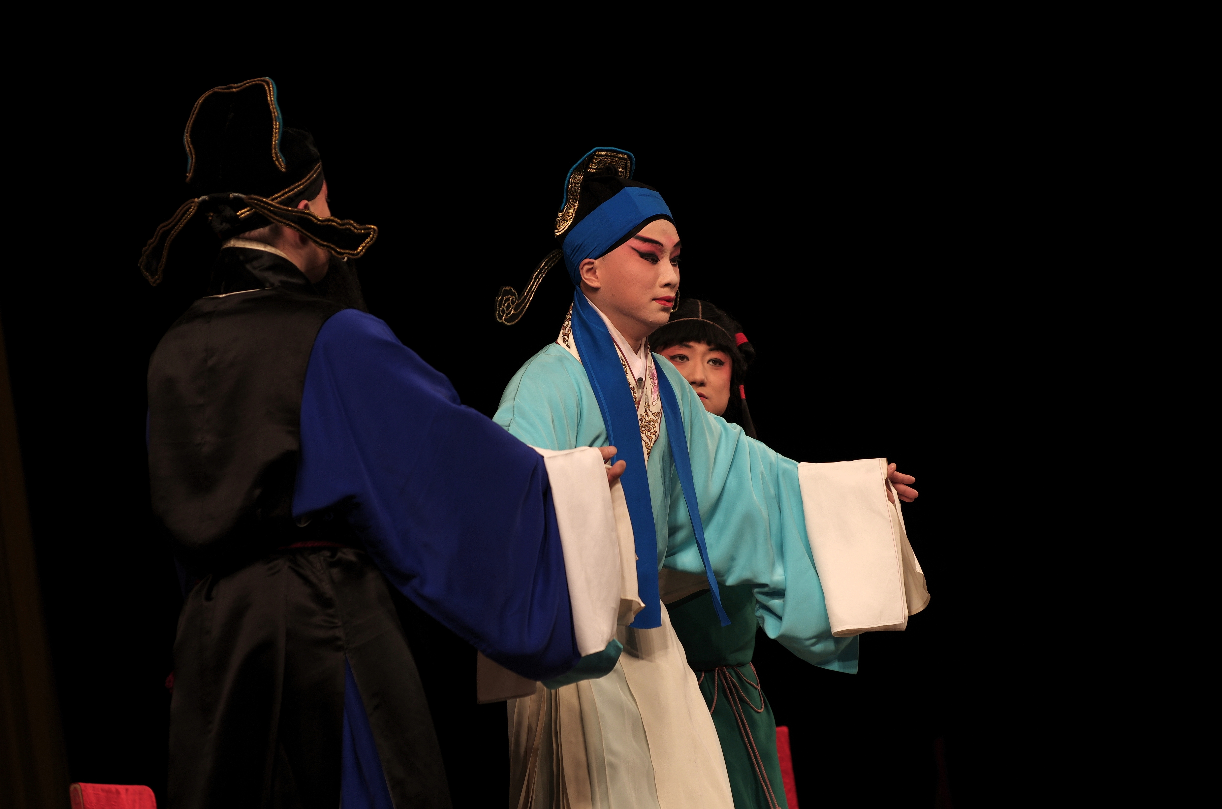 a 2014 performance of an episode from the novel '